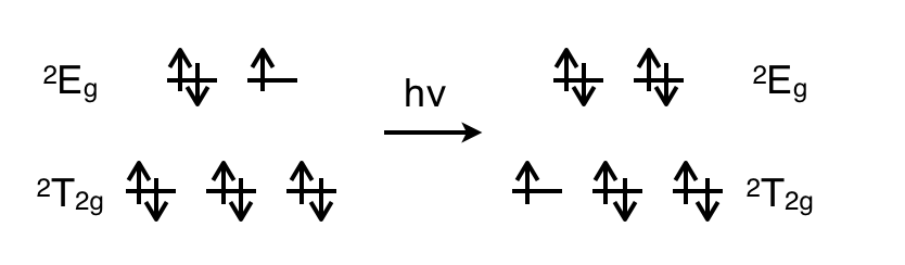 Excitation of an octahedral d9 electron configuration